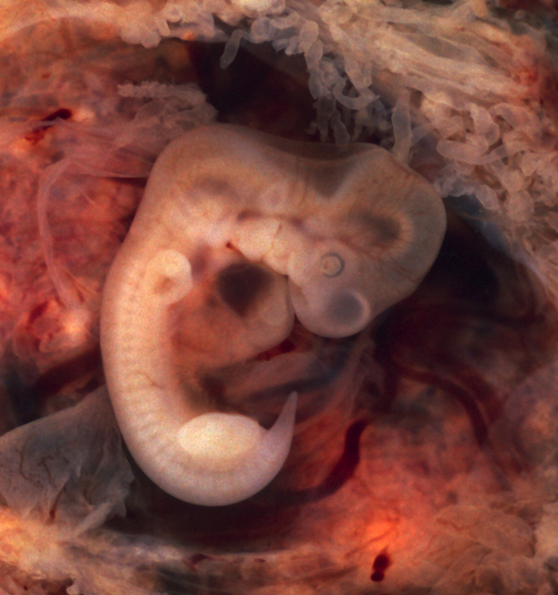 Human Embryo (7th week of pregnancy, 5th week p.o.) This photo of an opened oviduct with an ectopic pregnancy features a spectacularly well preserved 10-millimeter embryo. It is uncommon to see any embryo at all in an ectopic, and for one to be this well preserved (and undisturbed by the prosector's knife) is quite unusual. Even an embryo this tiny shows very distinct anatomic features, including tail, limb buds, heart (which actually protrudes from the chest), eye cups, cornea/lens, brain, and prominent segmentation into somites. The gestational sac is surrounded by myriad chorionic villi resembling elongated party balloons. This embryo is about five weeks old (or seven weeks in the biologically misleading but eminently practical dating system used in obstetrics). The photo was taken on Kodak Elite 200 slide film, with a Minolta X-370 camera and 100mm f/4 Rokkor bellows lens at near-full extension. The formalin-fixed specimen was immersed in tap-water and pinned to a tray lined with black velvet. The exposure was 1/4 second at f/8.